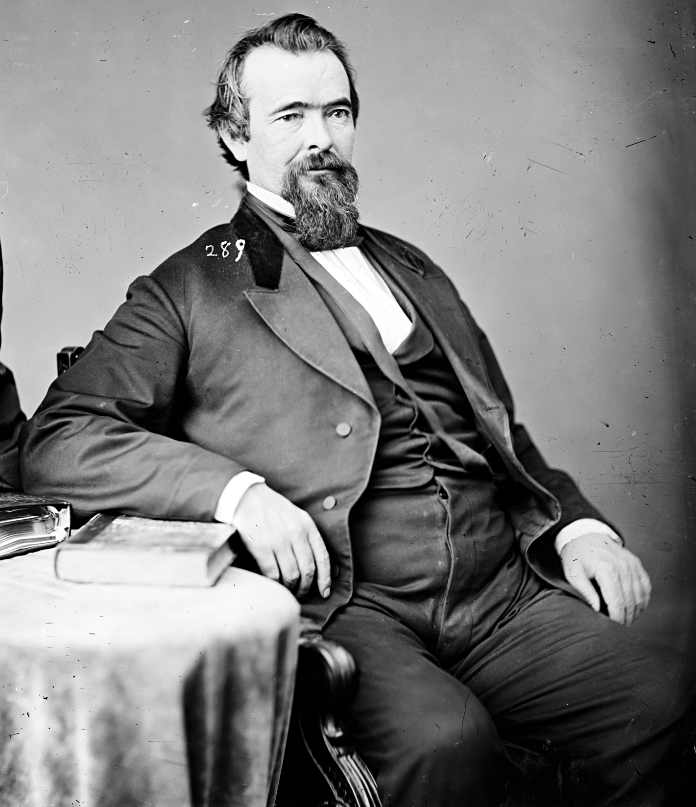 Lawrence S. Trimble, US Representative from Kentucky